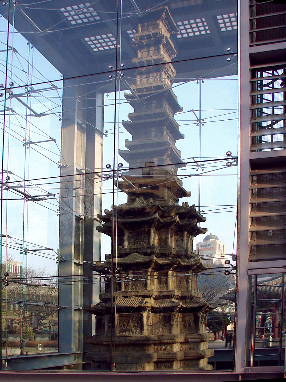 10 Storied Stone Pagoda at Wongaksa (temple) inside Tapgol Park in downtown Seoul. The pagoda is being preserved within an encapsulated protective enclosure.